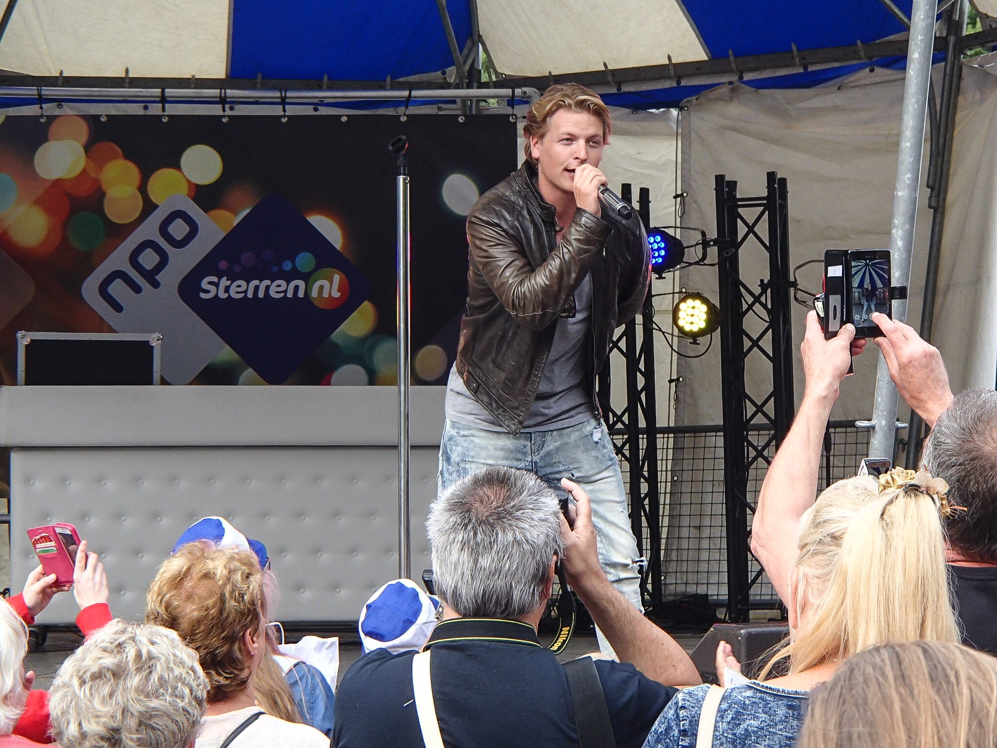 Thomas Berge with his performance in the media park in Hilversum